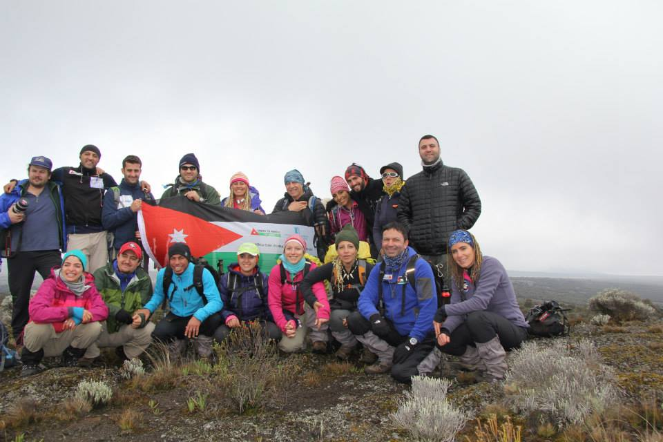 A team of Jordanians in an expedition at Moshi, Mount Kilimanjaro in 2014 in an effort to support the cancer research initiatives of the King Hussein Cancer Foundation and gave $1.3 million from the collection. The team includes Maha Amro, Iman Essa Mutlaq, Raed Amr, Farah Yaseen, Russell Mills, Aysar Batayneh, Rania AbuKhader, Jesse Ruuttila, Sahar Jumean, Dani Marji, Zeena Kalaldeh, Zein Saraswatiji Salti, Mostafa Salameh, Saliba Amash, Omar Sawalha, Louay Shomaly, Helen Al Uzaizi, Dina Shoman, Zein Ammari Sunna, Eyad El-Shareef, Sima Najjar Hijjawi and Amals Hisham AlSadi.